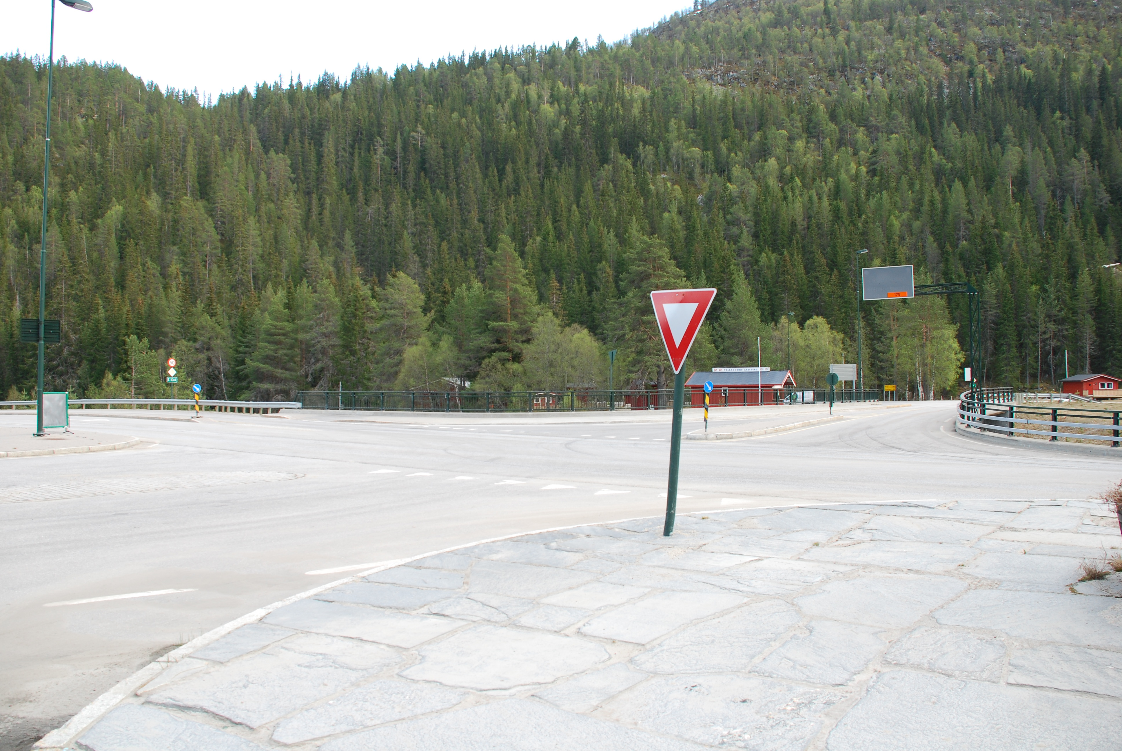 Haukeli, Vinje, Telemark, Norway: where the highways Rv9 and E134 meet.